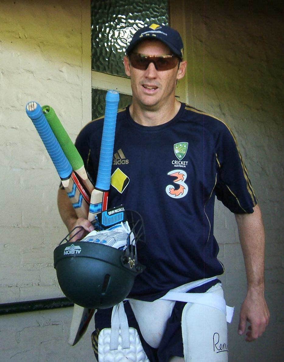 Dale Steyn at a training session at the Adelaide Oval